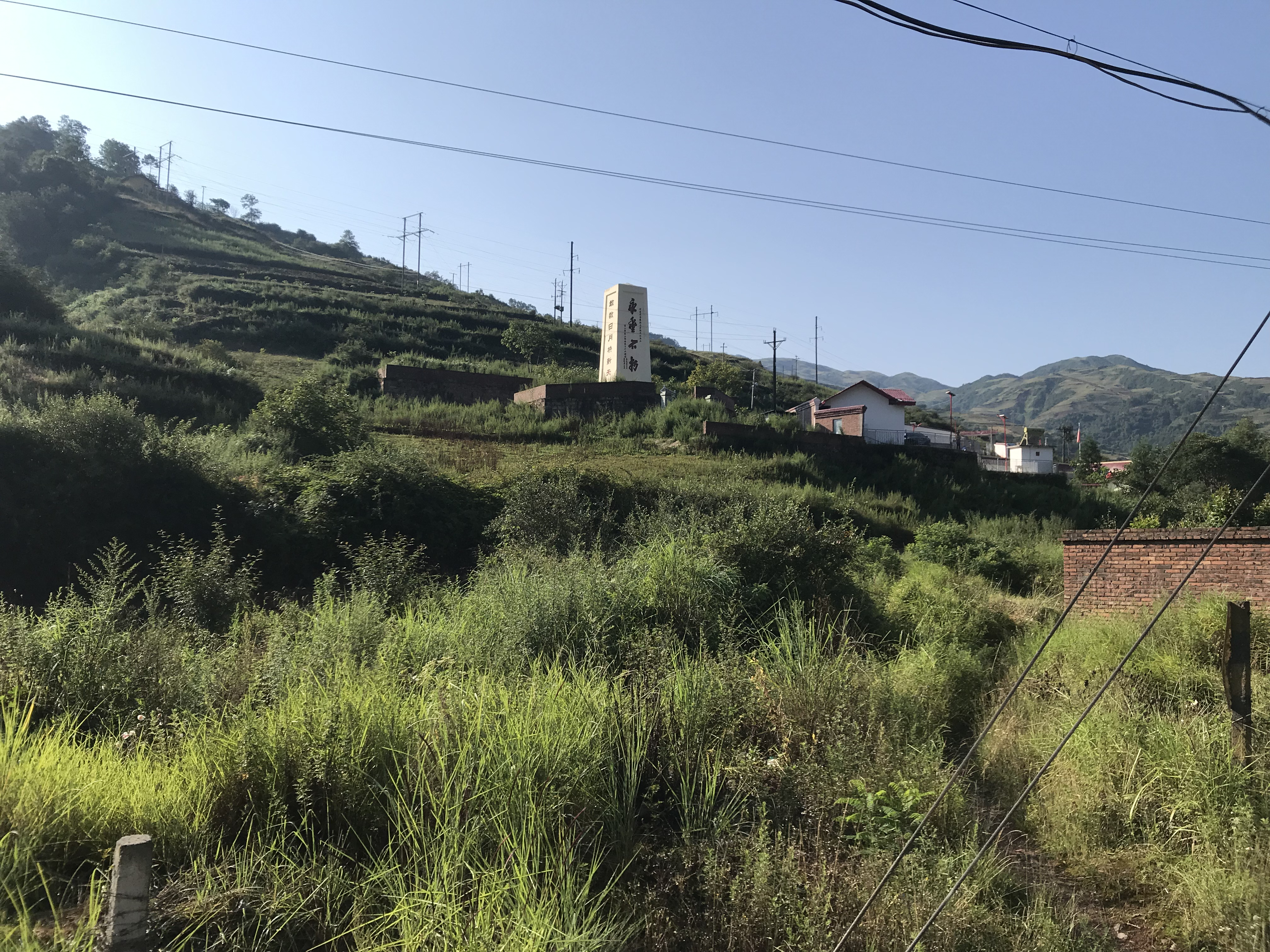 Before the station yard and Shamalada Tunnel